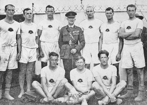 The AIF VIII of Leichhardt Rowing Club, Australia. Royal Henley Peace Regatta held on July 2nd, 3rd, 4th, and 5th, 1919.